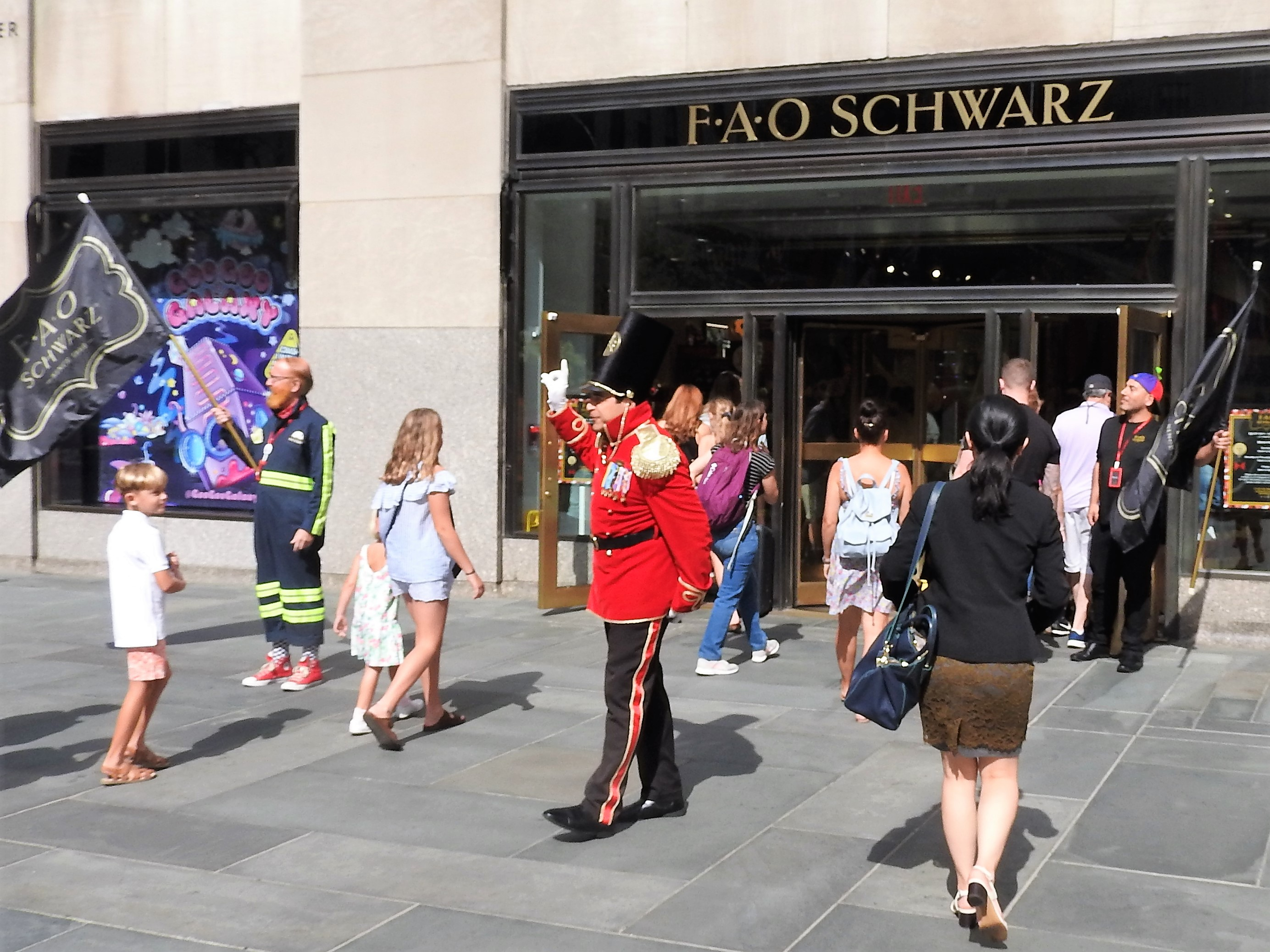 Looking west as greeter with two flag bearers welcomes shoppers on Rockefeller Plaza